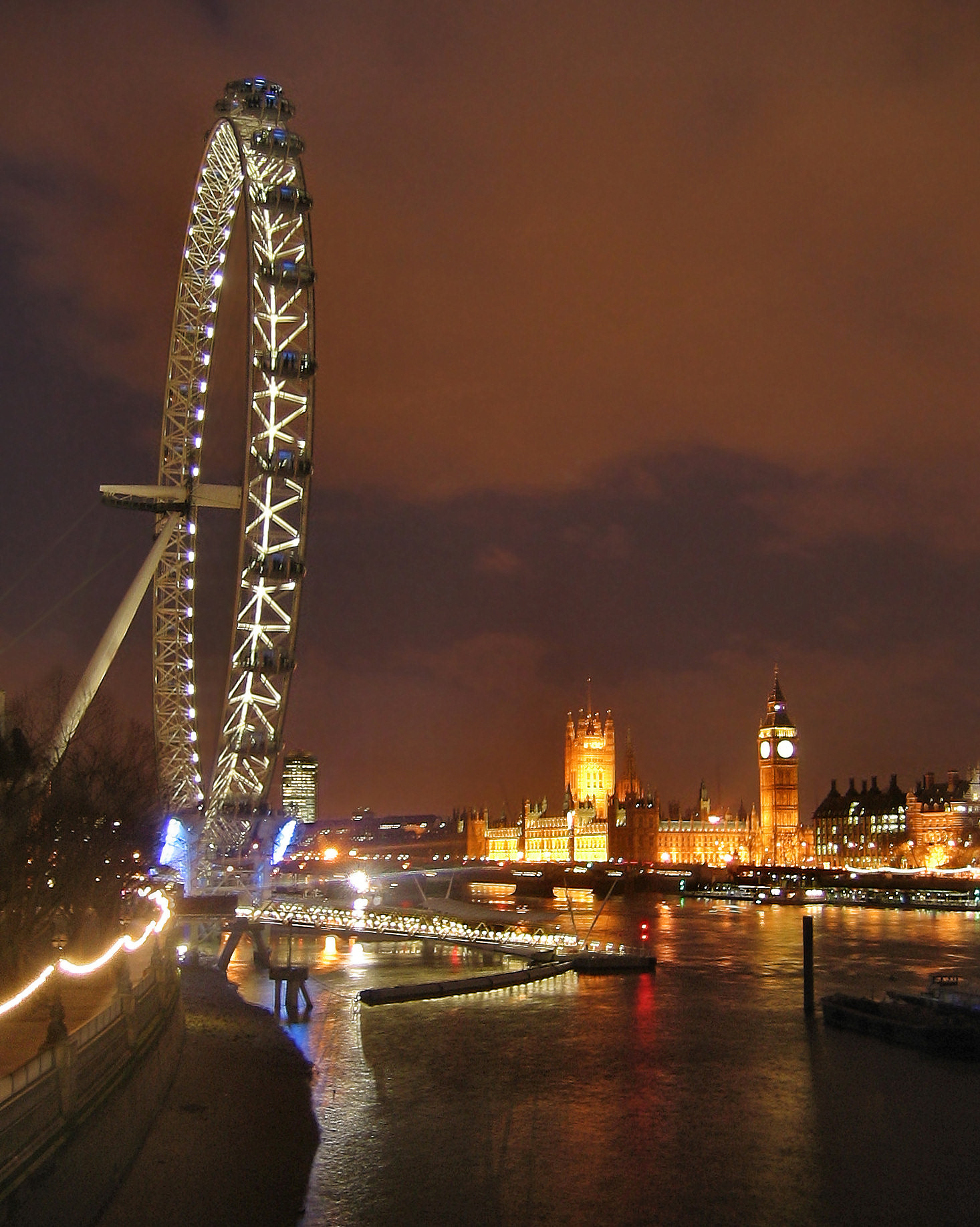 London Eye and Palace of Westminster, from Hungerford Bridge